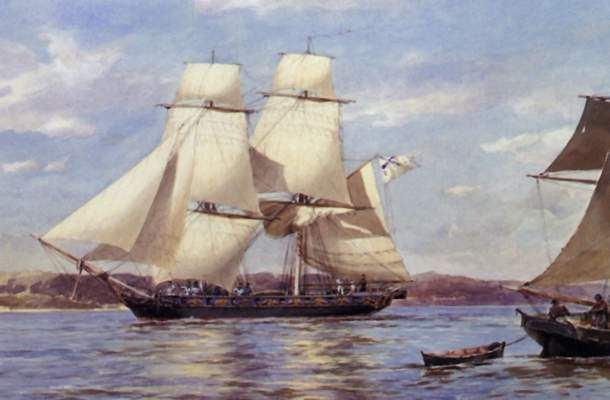 Alexander Karlovich Beggrov (1841-1914) Yacht "Friendship"